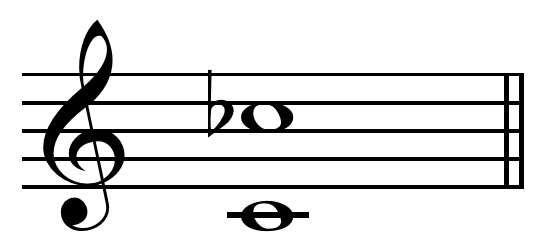 Diminished octave on C = C♭. Just: 48:25 = 1129.33 cents. Equal-tempered: 211/12:1 = 1100 cents. Created by Hyacinth (talk) 04:31, 8 January 2011 using Sibelius 5.